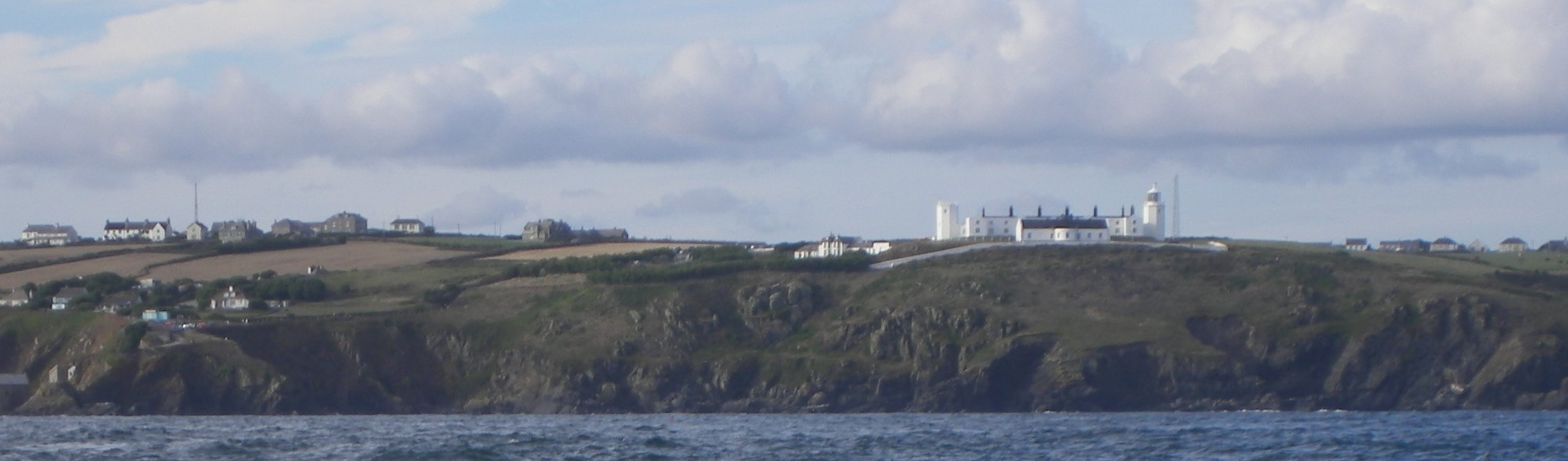 Phare du cap Lizard. (Lizard Lighthouse). Photo d'Alvaro, 2006-08-24